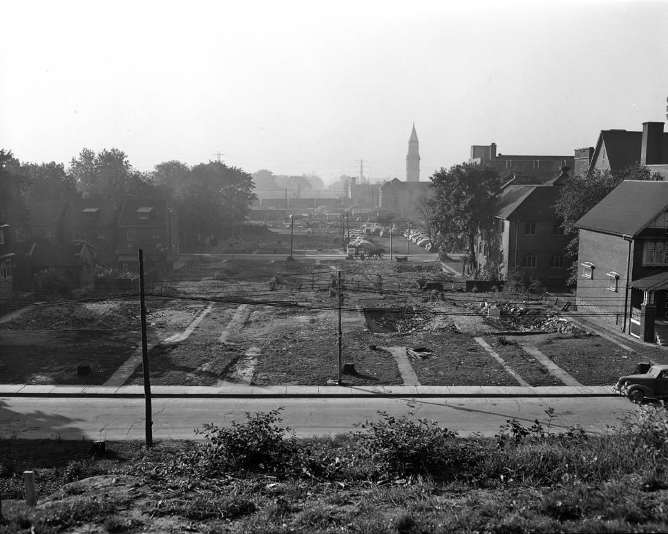 Demolition of homes east of Yonge Street near Summerhill in order to construct cut and cover sections of the future Yonge Subway Line